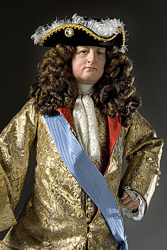 Historical Mixed Media Figure of French King Louis XIV circa 1685 produced by artist/historian George S. Stuart and photographed by Peter d'Aprix. This image, from the George S. Stuart Gallery of Historical Figures® archive ( is provided for all uses with appropriate attribution. Any derivatives must be shared in the same manner. Contributor mharrsch is webmaster for the gallery site.